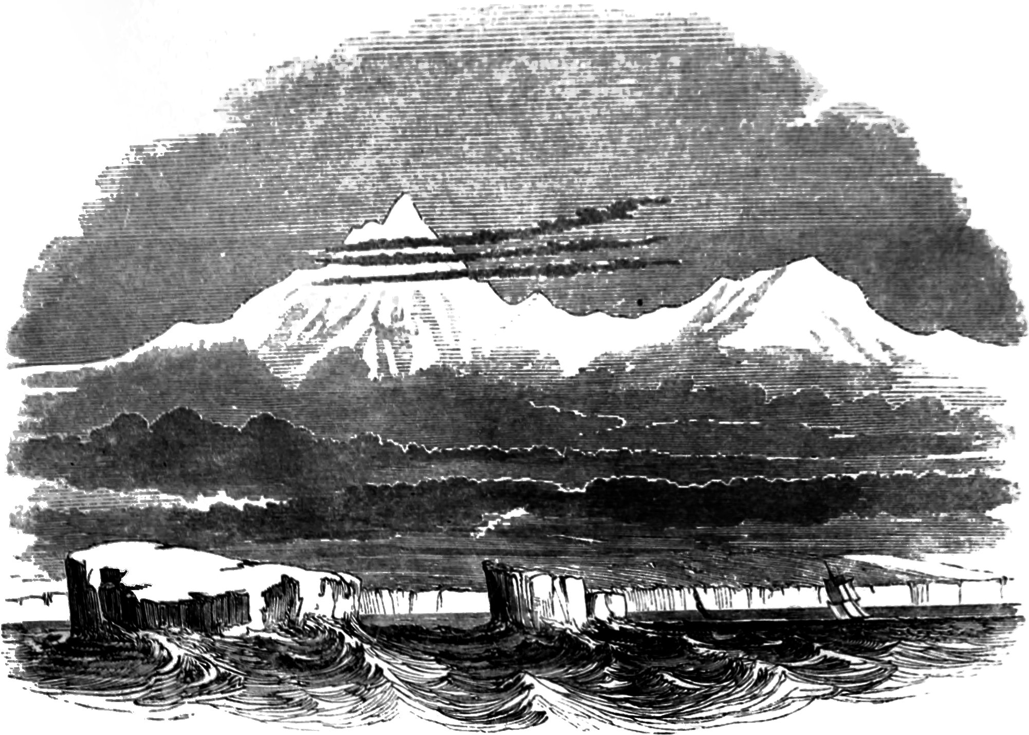 Mount Minto and Mount Adam from A voyage of discovery and research in the southern and Antarctic regions, during the years 1839-43